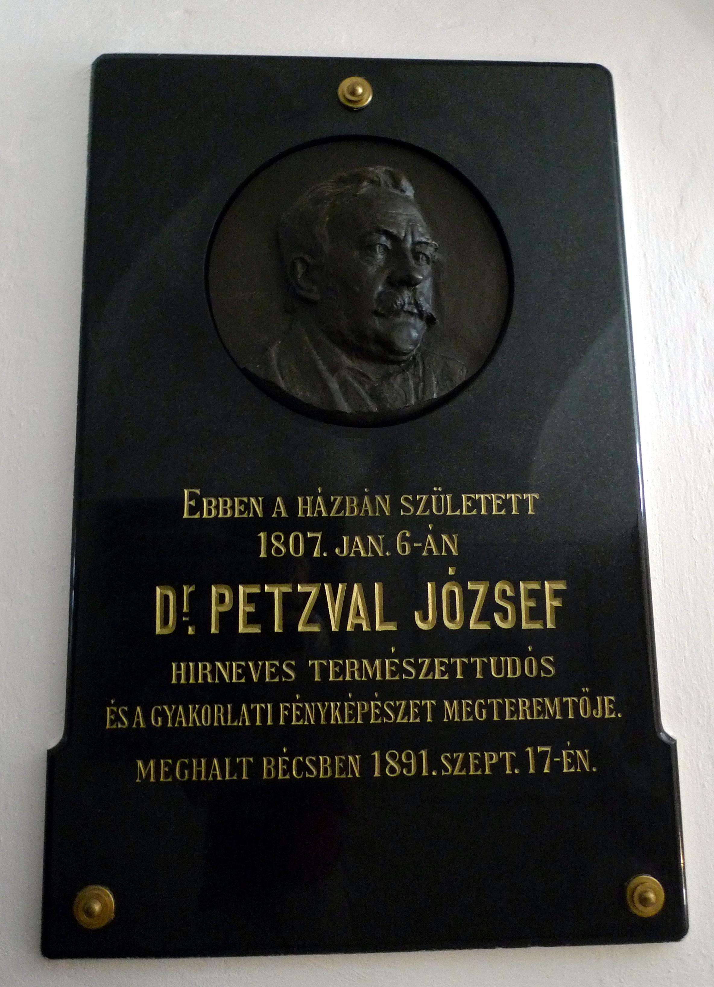 Jozef Maxmilian Petzval Memorial in Spišská Belá, Slovakia